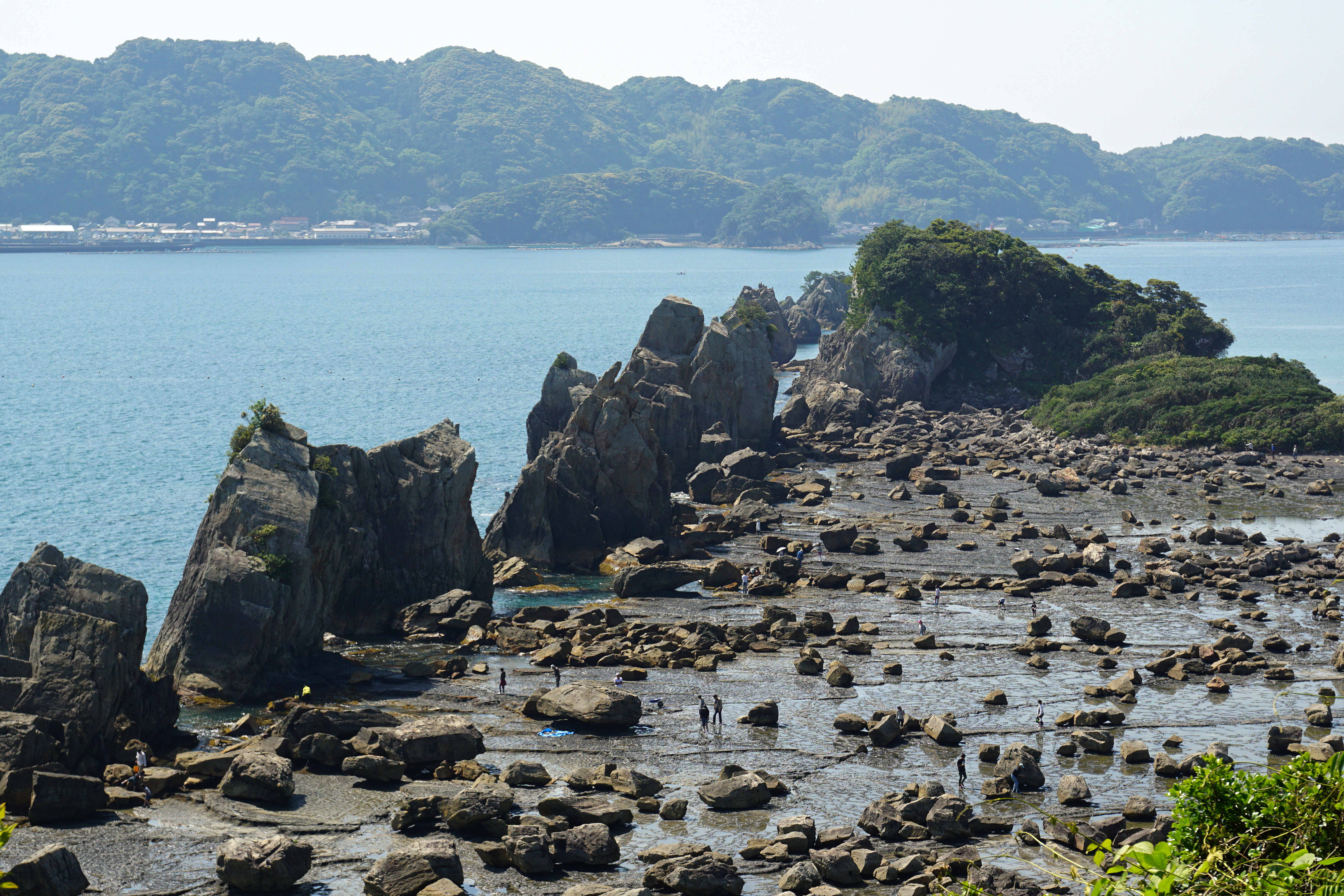 Hashiguiiwa in Kushimoto, Wakayama prefecture, Japan